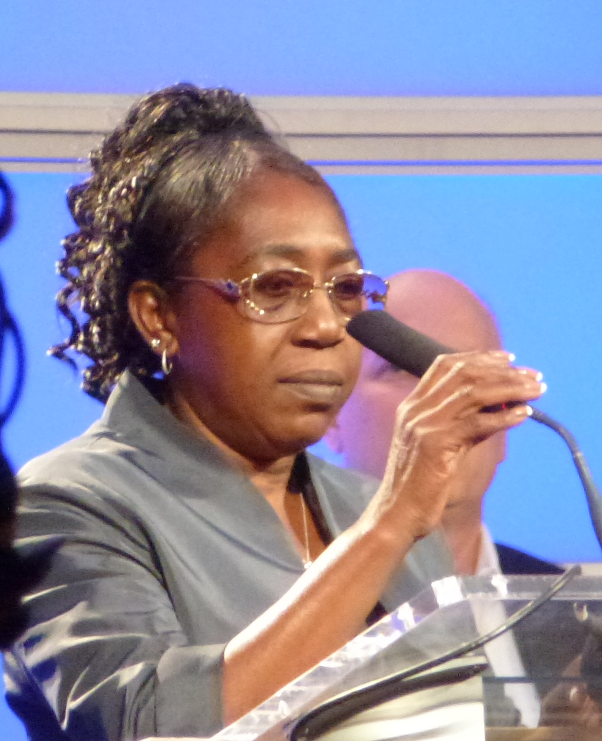 Marcia Pinder, Dillard High School (Fort Lauderdale) head coach women's basketball team, winner of the 2012 WBCA HS Coach of the Year Award. Taken at the 2012 WBCA Awards ceremony in Denver Colorado